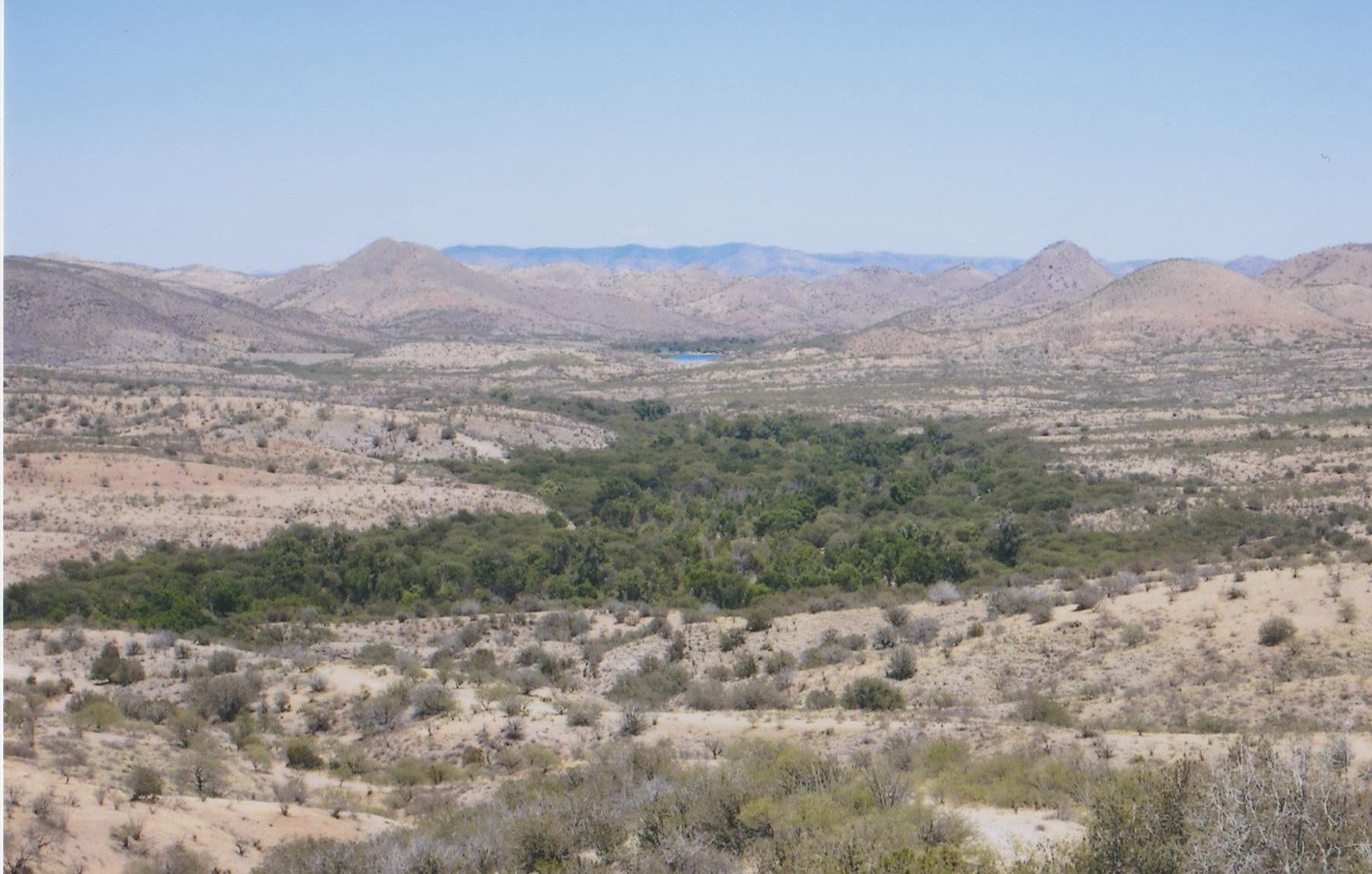 Riparian Forest along Sonoita Creek, southwest of Patagonia Lake, part of which can be seen in the center of the photo.